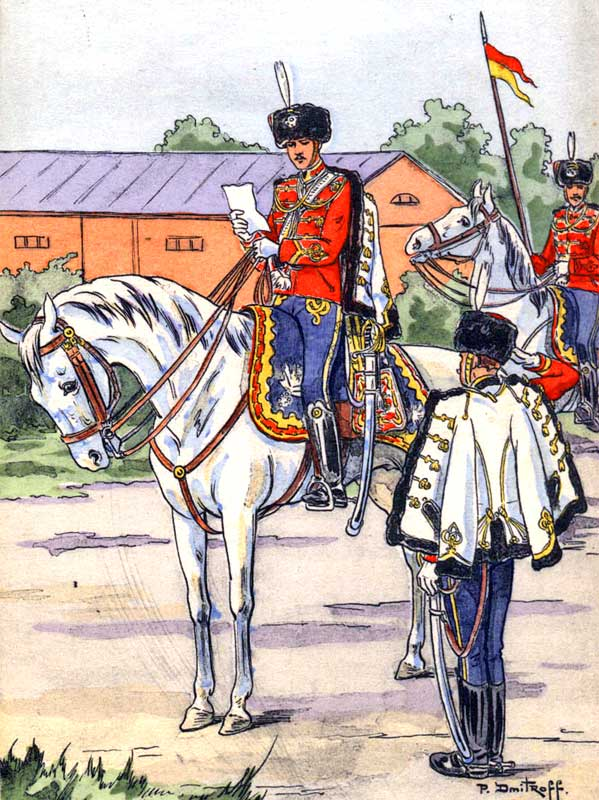 Uniform of Husar Guard Regiment. 1914 Postcard.